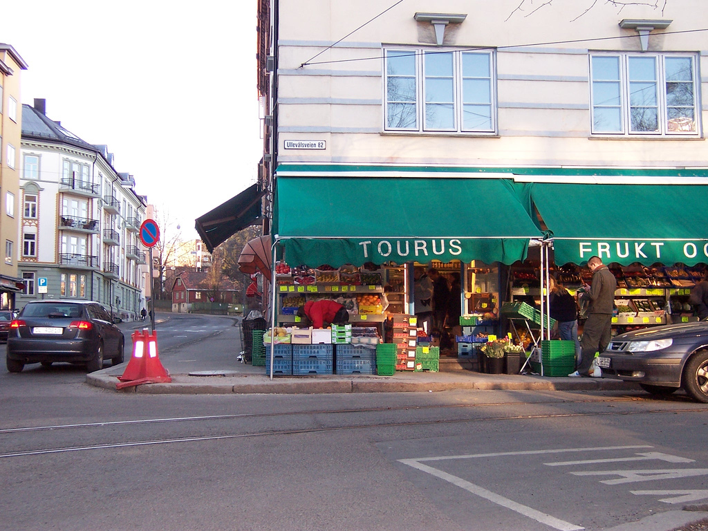 A Turkish supermarket in Oslo, Norway.